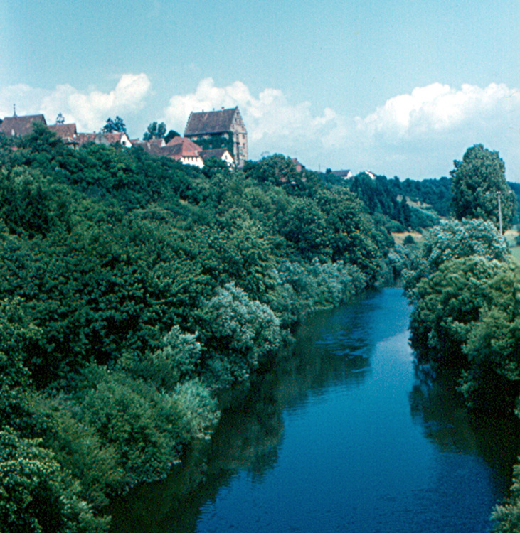 Bürg. The photo is rather like a miniature of Bad Wimpfen - a small river, small town above the river, small castle.